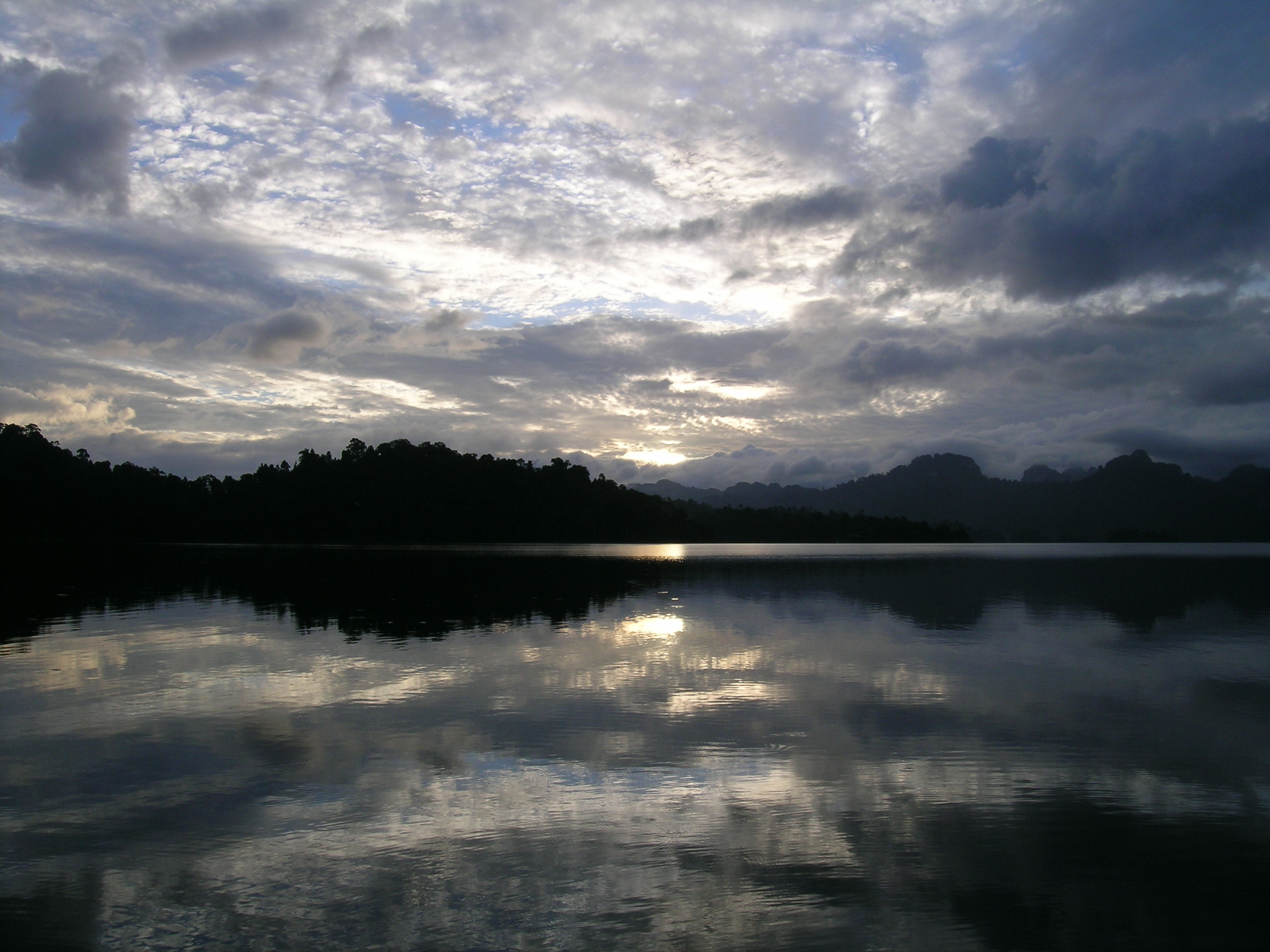 I took this photograph in the Khao Sok national park in Thailand. The picture was taken from a kayak.